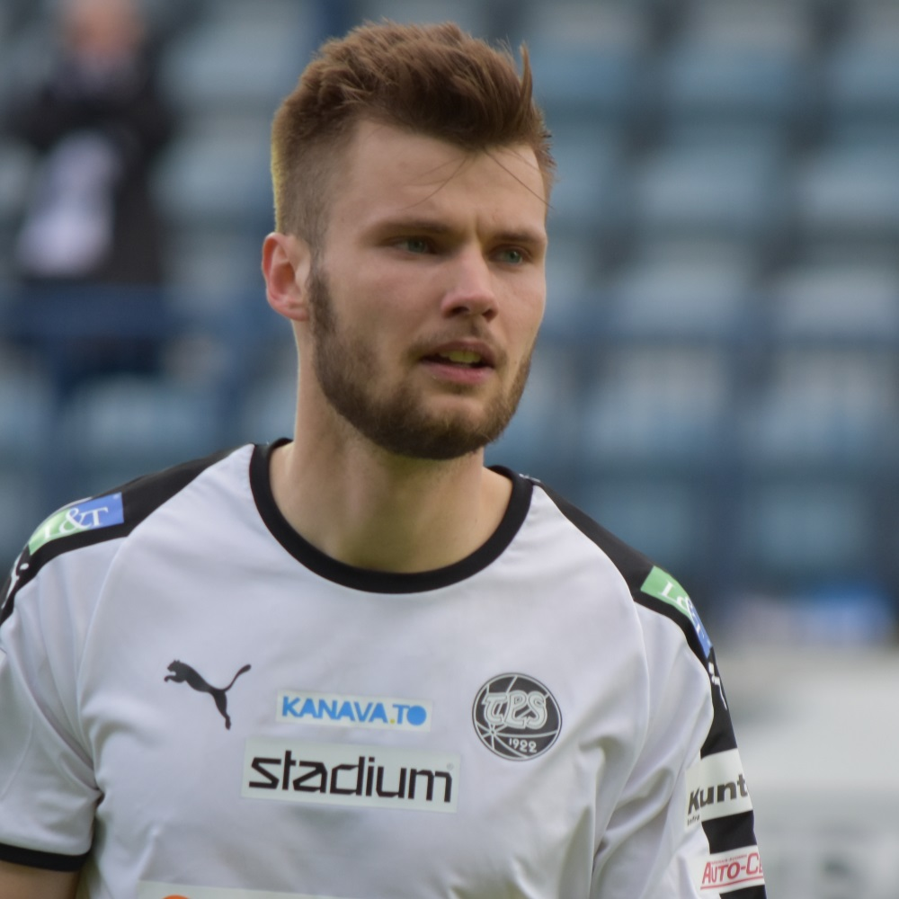 Football player Niklas Friberg (TPS)